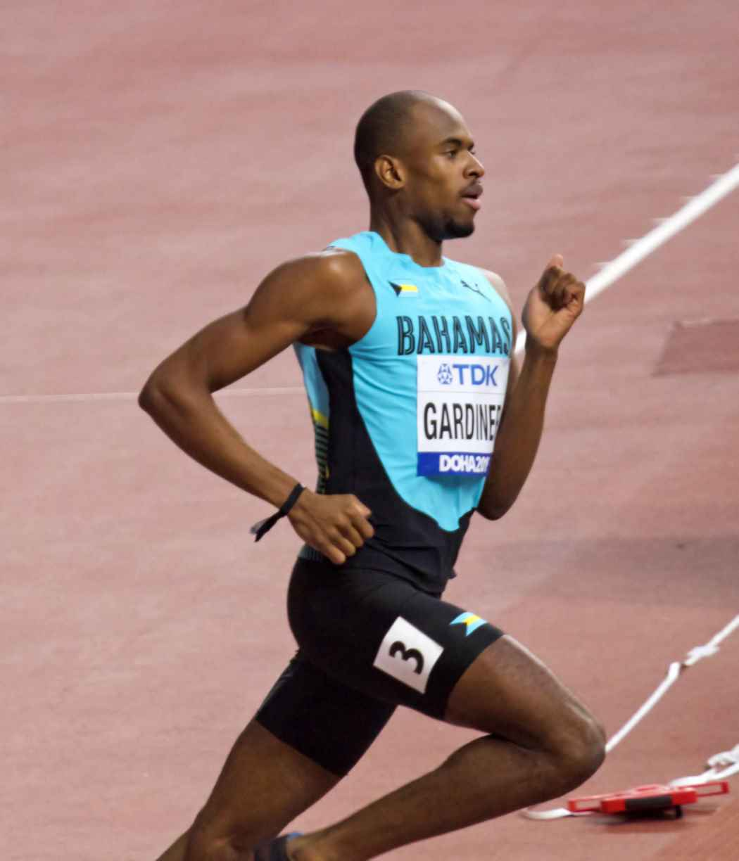 Steven Gardiner, running in the 400 metres heats, at the 2019 World Athletics Championships in Doha, Qatar.